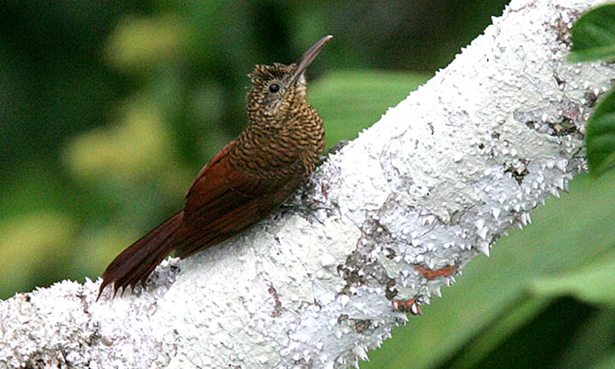 Amazonian Barred-woodcreeper (Dendrocolaptes certhia). Photographed from the metal canopy tower, Sacha Lodge, Ecuador. f/6.3, iso 1600, exp comp minus two-thirds, 1/1000.